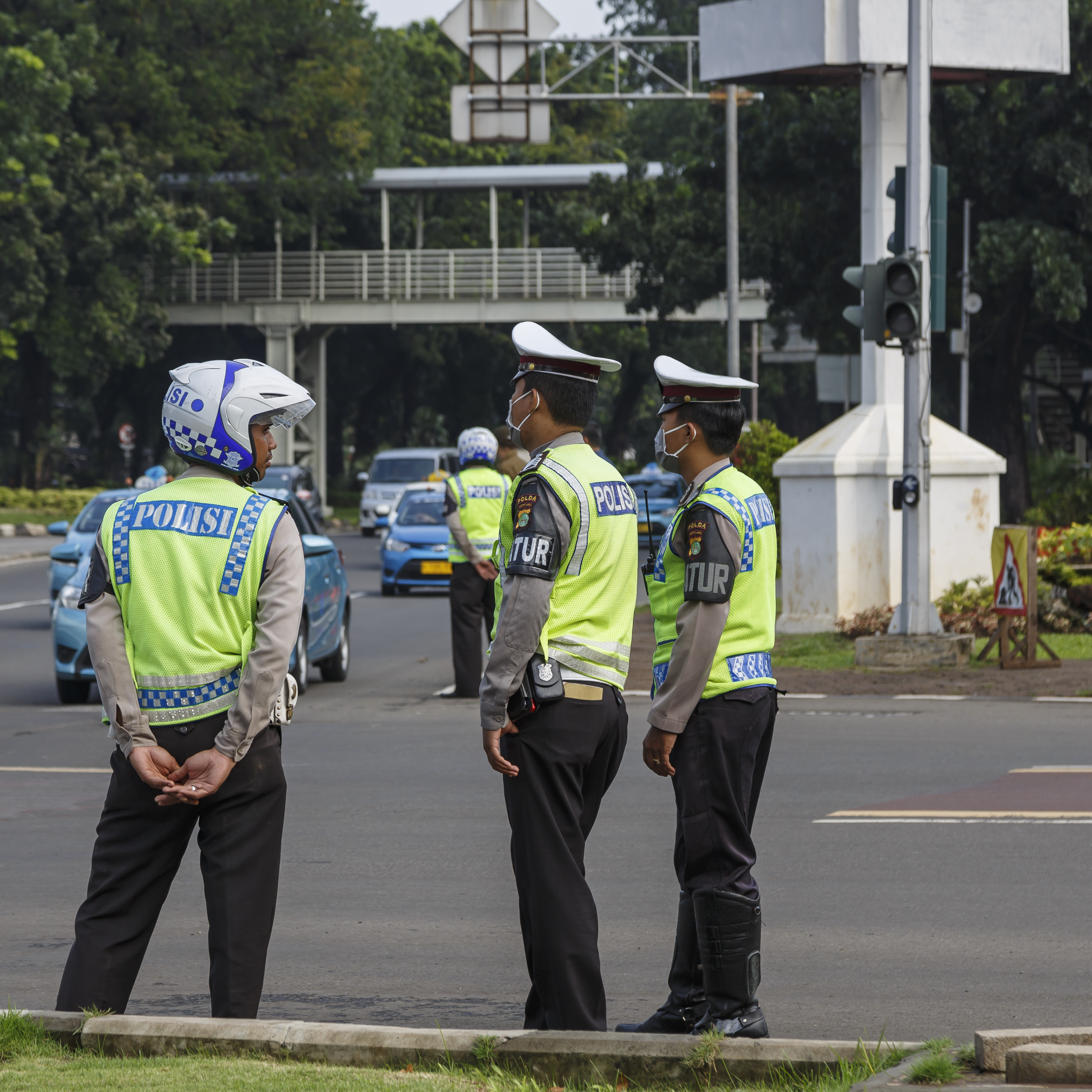 Jakarta, Indonesia: A group of police officers observing the traffic at Merdeka Square.